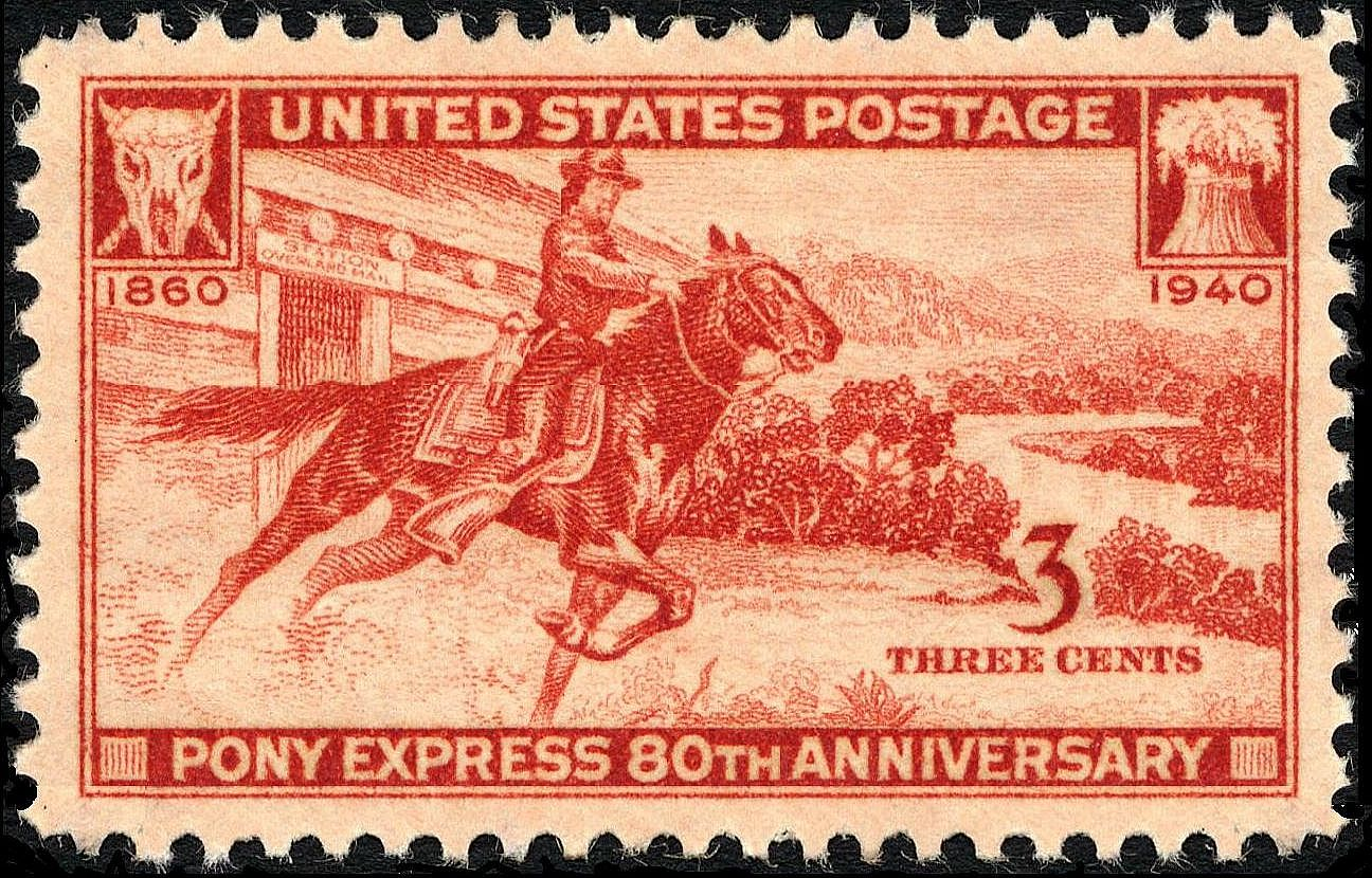 Image of A 3-cent red brown commemorative stamp, issued on April 3, 1940, commemorating the 80th anniversary of the founding of the Pony Express